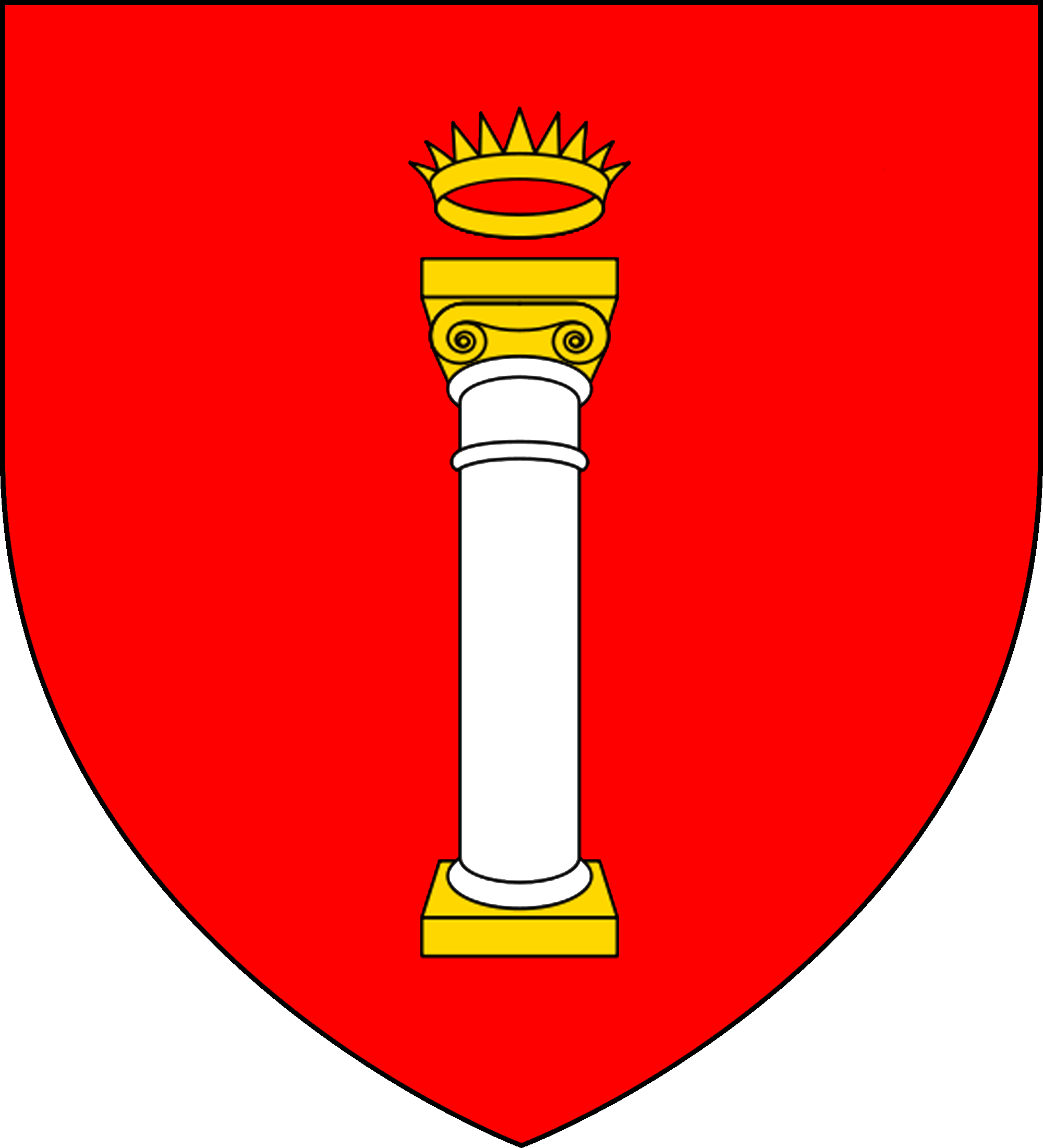 Escudo de armas de la casa Colonna, príncipes de Cesaró. (Stemma dei Colonna)